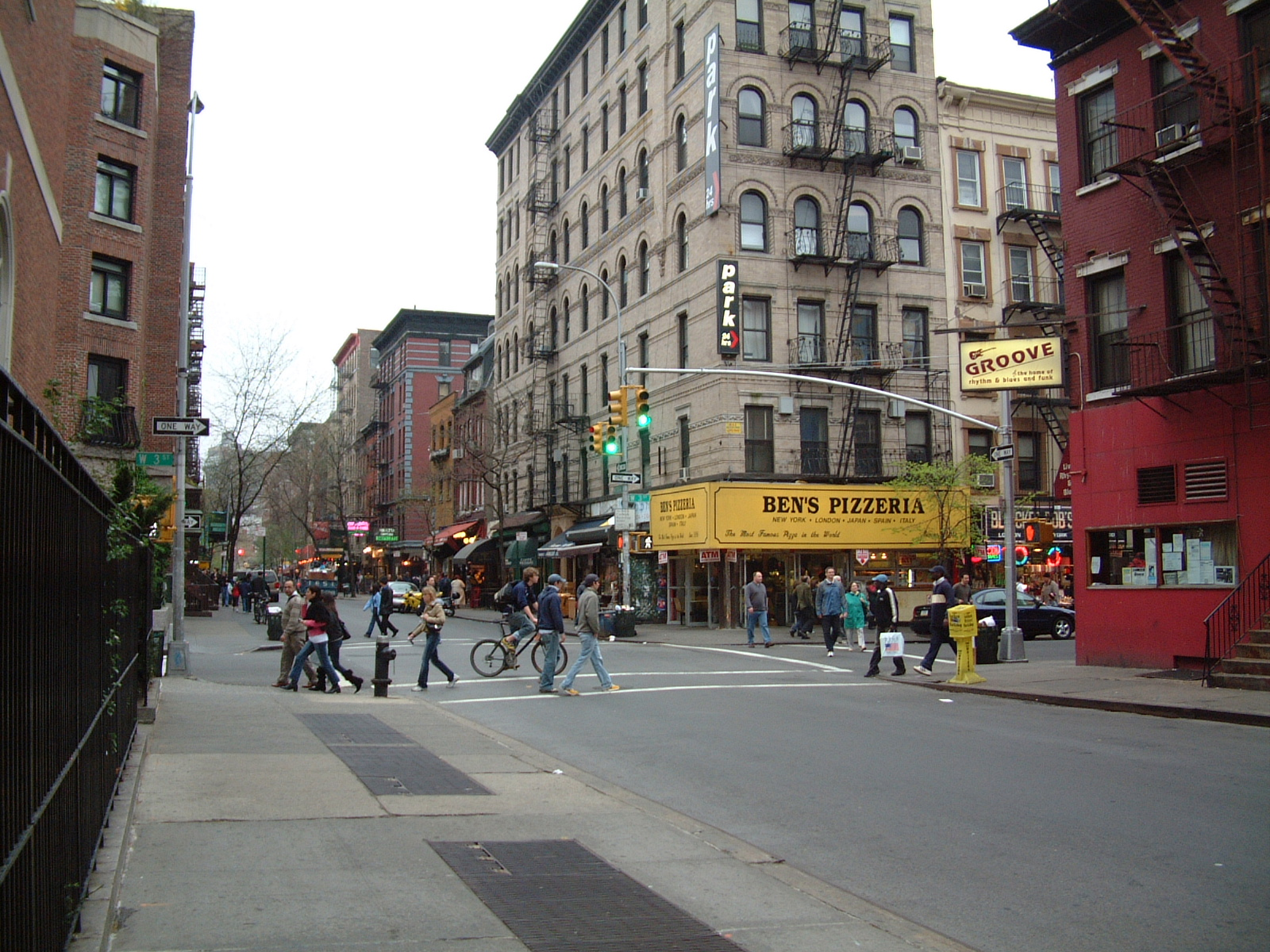 Bikes and people and pizza shops and high priced botiques - you get it all in Greenwich Village!